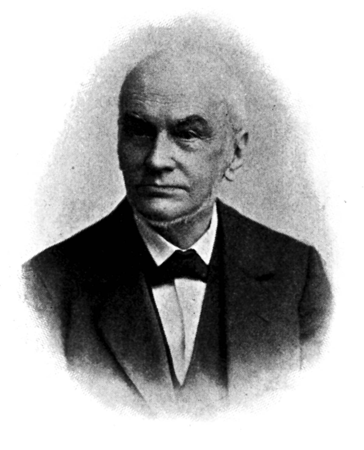 August Steffen